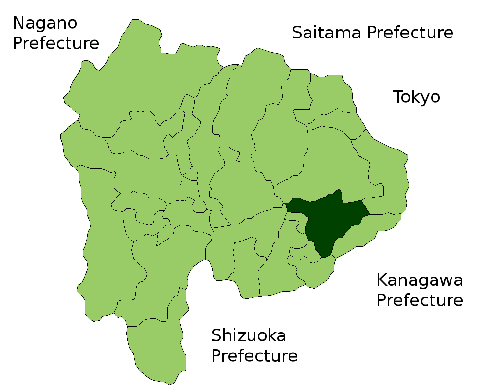 Location Map of Tsuru in Yamanashi Prefecture, Japan